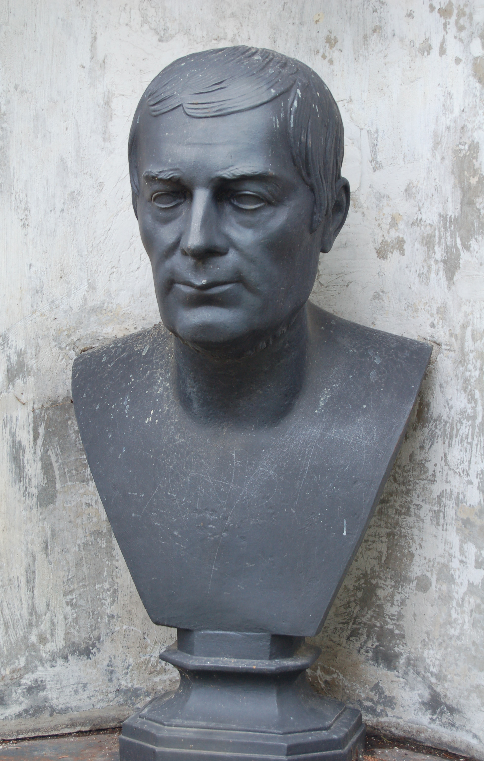 Bust of Matheus Edler von Rosthorn (August 7th, 1782 - May 3rd, 1855) at the cemetery of Waldegg, Piestingtal, Lower Austria.